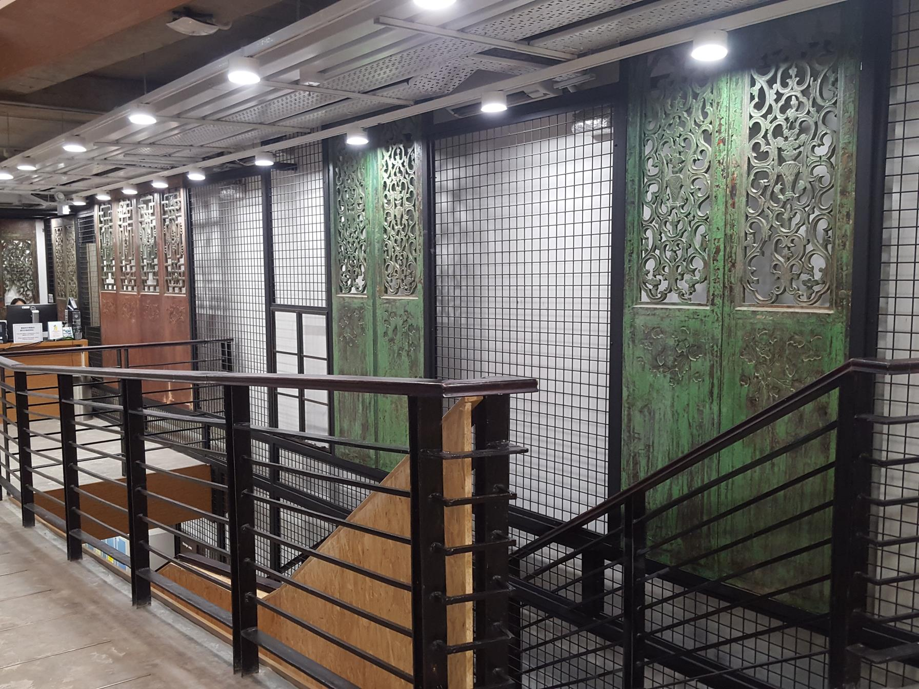 Biblioteca do Patane, Macau